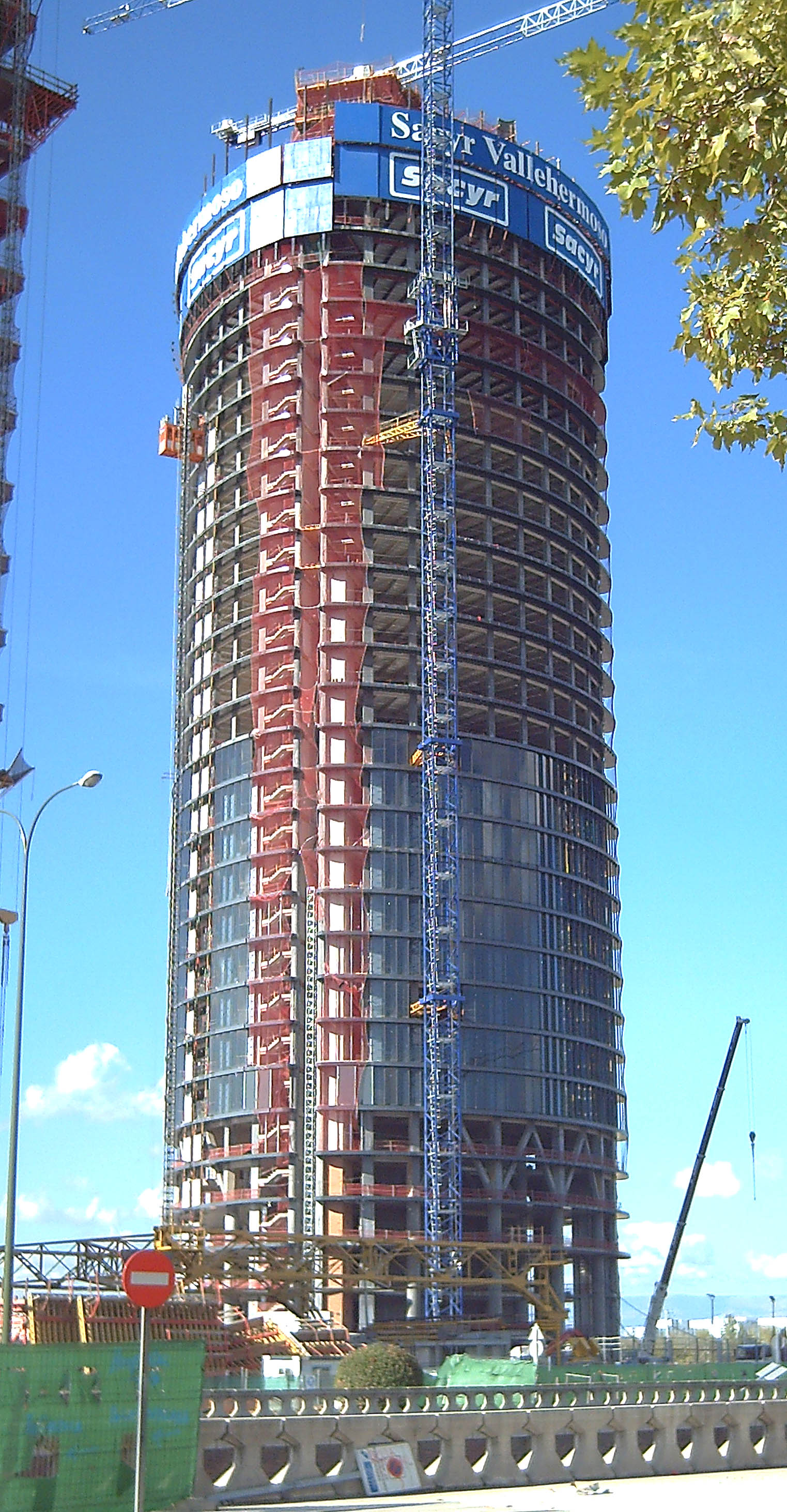 Torre Sacyr Vallehermoso, in Cuatro Torres Business Area (Madrid, Spain). Architects: Carlos Rubio Carvajal and Enrique Álvarez-Sala Walter.